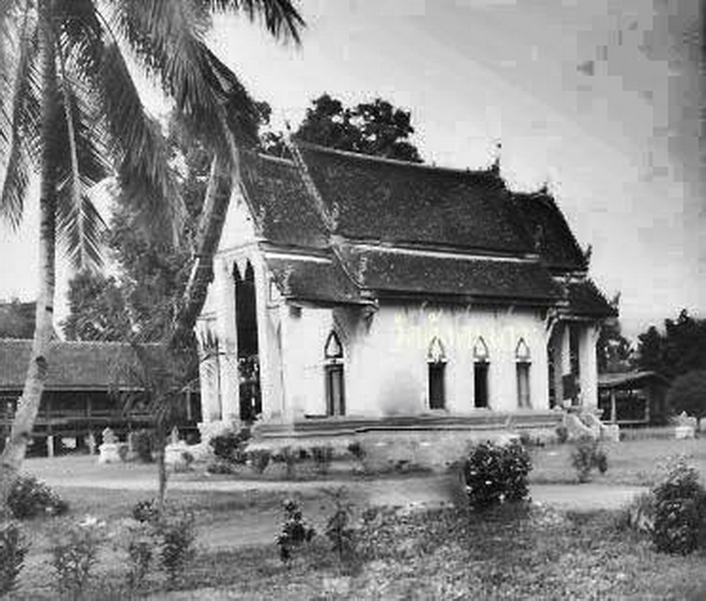 Wat Khung Taphao 1950